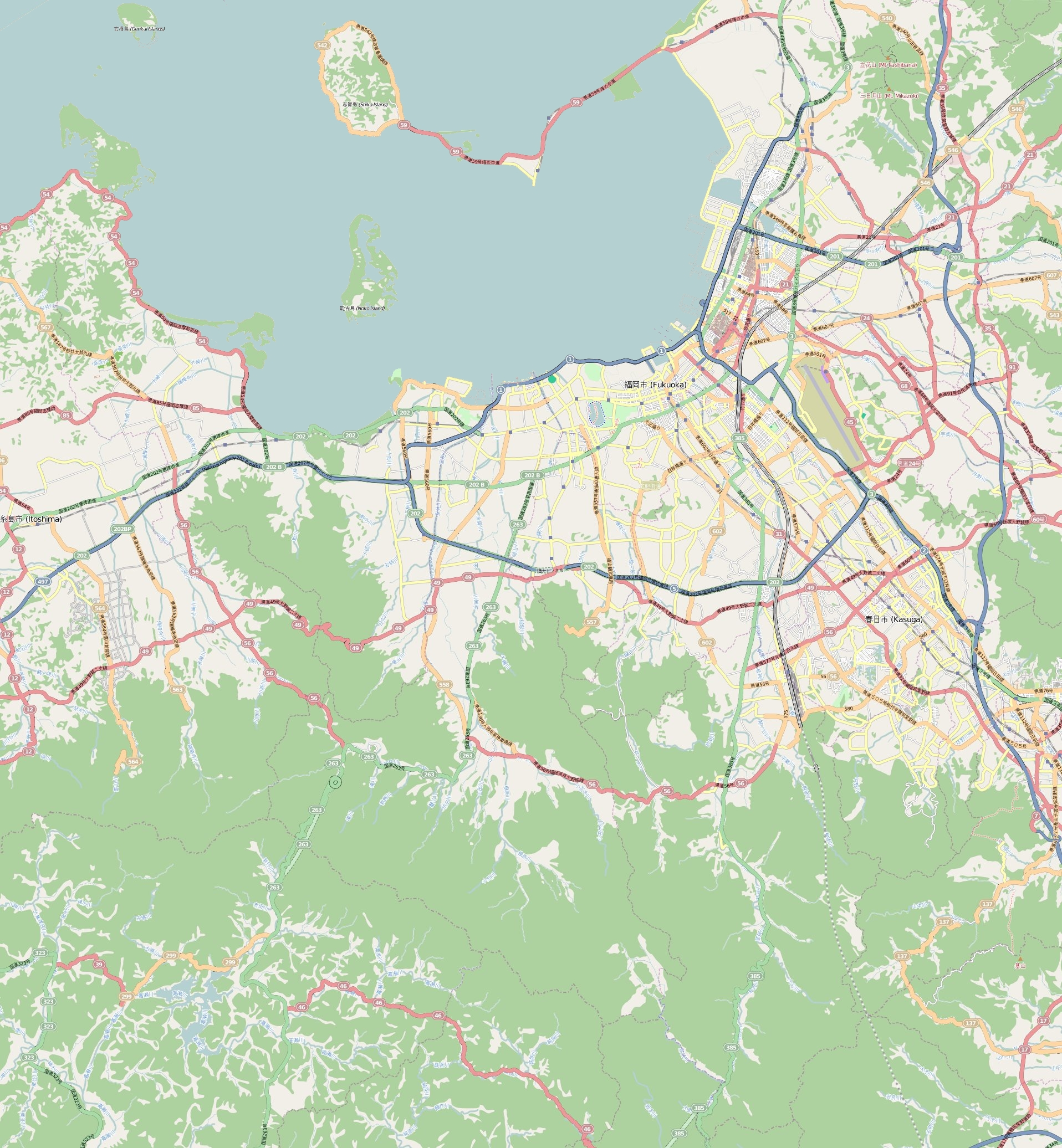 This map of Fukuoka was created from OpenStreetMap project data, collected by the community. This map may be incomplete, and may contain errors. Don't rely solely on it for navigation.